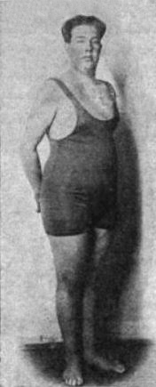 Photo for U.S. swimmer Fred Schwedt, who set world record for the plunge for distance in 1920, at age 17.